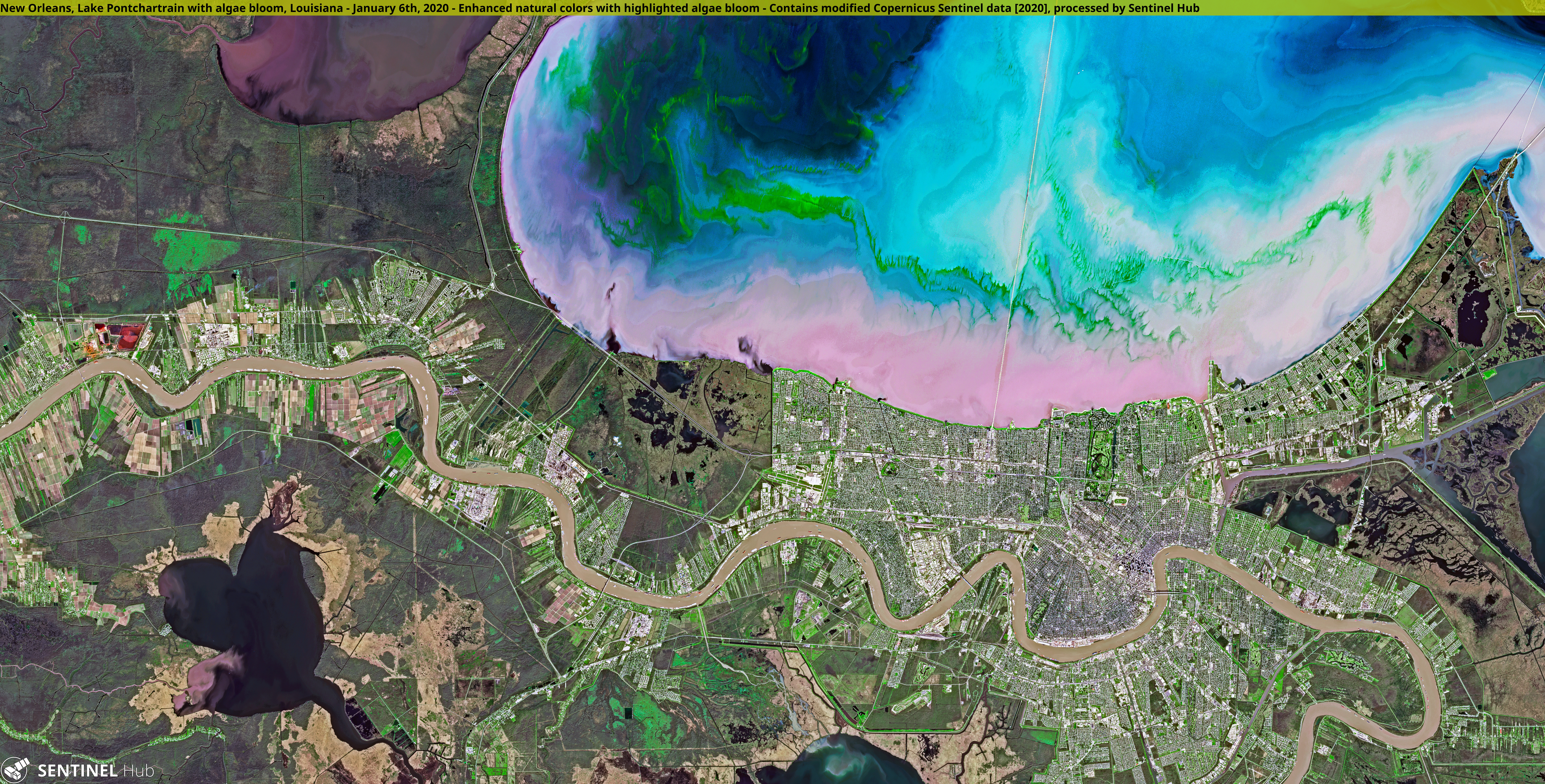 Contains modified Copernicus Sentinel data [2019], processed by Sentinel Hub New Orleans, Lake Pontchartrain with highlighted algae bloom, Louisiana - January 6th, 2020